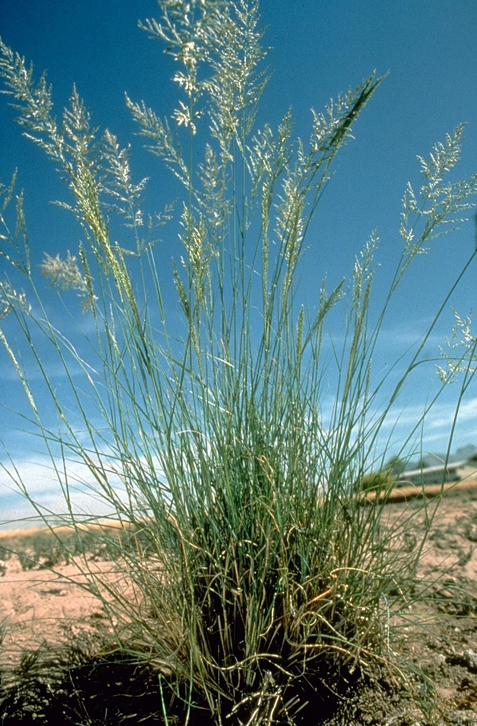 Eragrostis curvula (Schrad.) Nees - weeping lovegrass